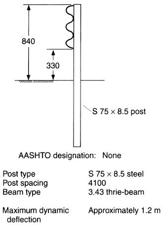 deawing guardrail by autocad